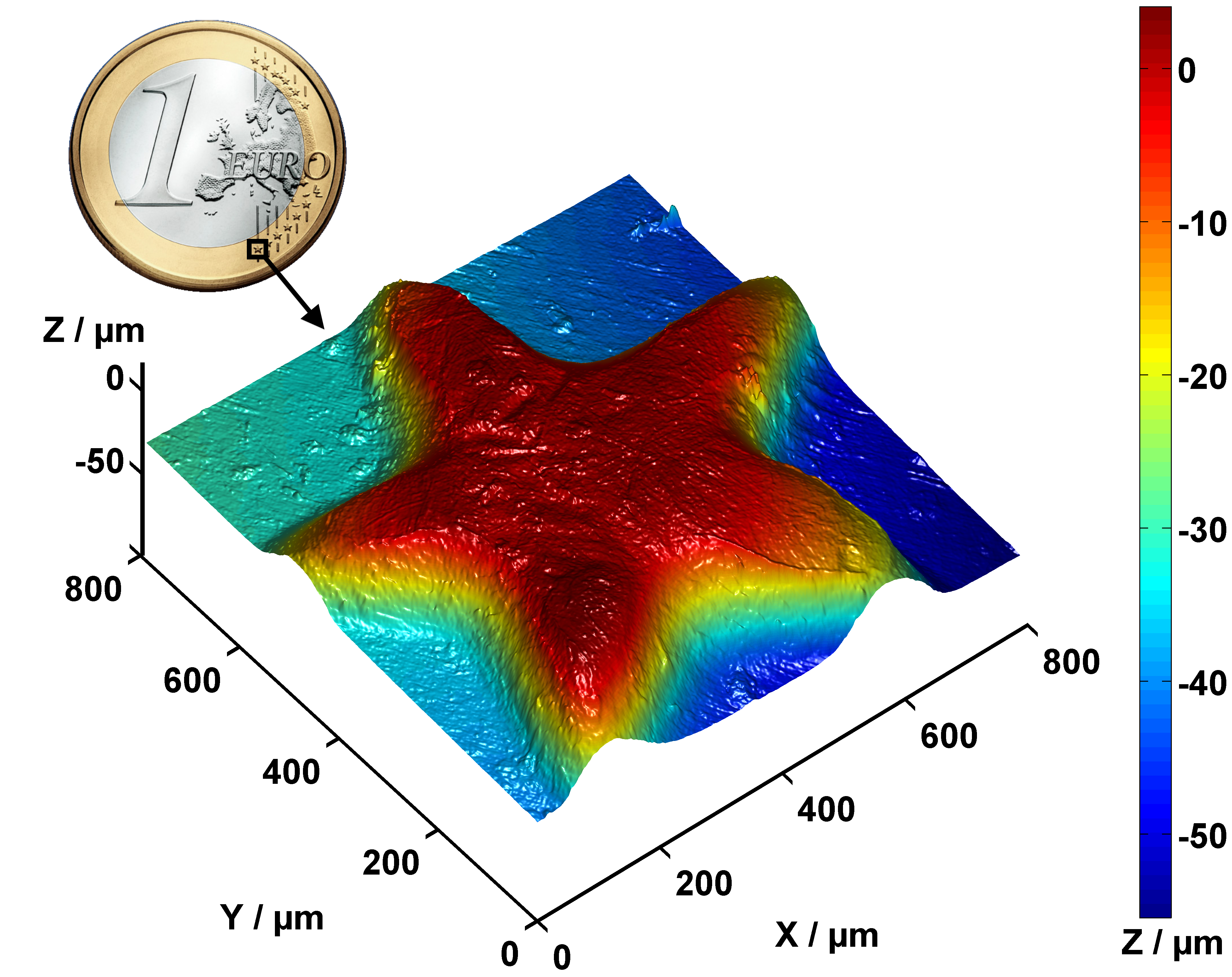 Three dimensional representation of a 1-euro coin's surface detail: One of the stars embossed on one side of the coin is shown. The 3d profile has been measured with a confocal white light microscope. The lateral range of the measurement is 800 µm by 800 µm (0.8 mm by 0.8 mm), the vertical range is approximately 60 µm (0.06 mm). The colours of the surface show the height according to the scale on the right side of the image. The graphics was created using MATLAB.